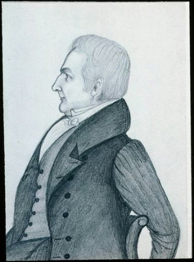 Portrait of Mr. Gilman of Norwich, Connecticut, by James Crowley, graphite pencil on paper portrait. Subject of the portrait is William Charles Gilman, mill owner and father of Daniel Coit Gilman, graduate of Yale University and university president. Courtesy of the Boston Museum of Fine Arts